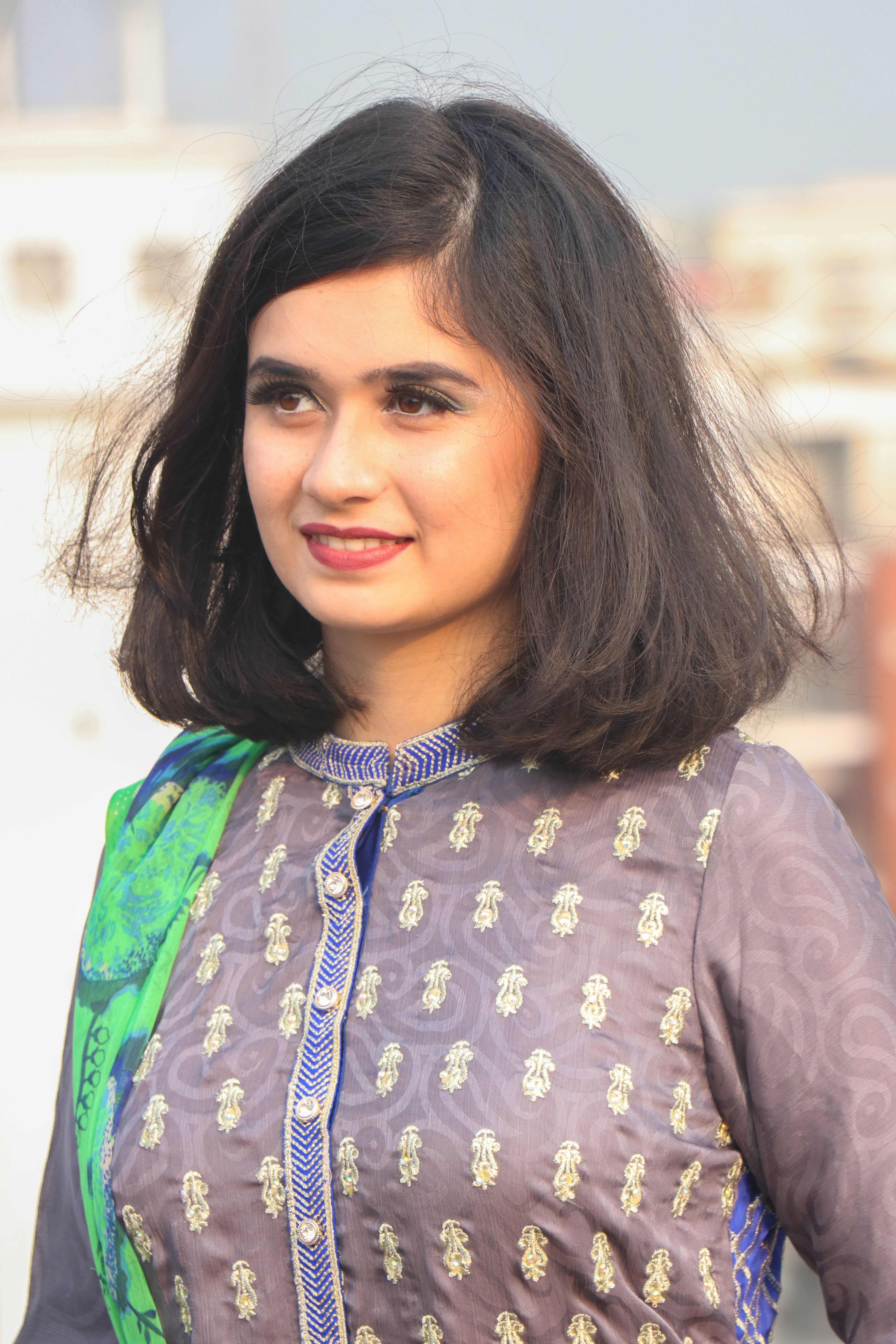 Jannatul Ferdous Oishee, Bangladeshi model and beauty pageant titleholder who was crowned Miss World Bangladesh 2018